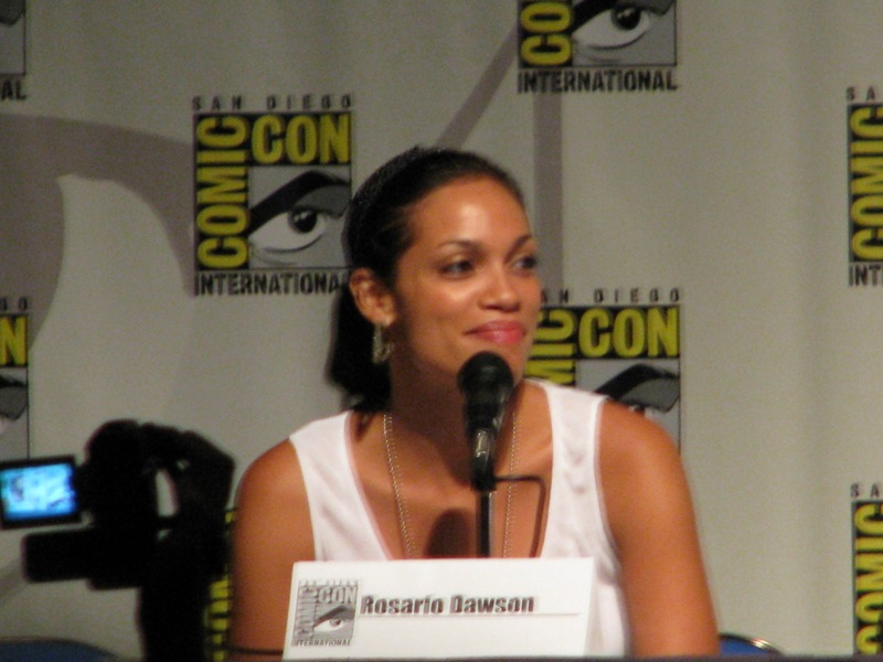 Rosario Dawson at 2006 San Diego Comic-Con